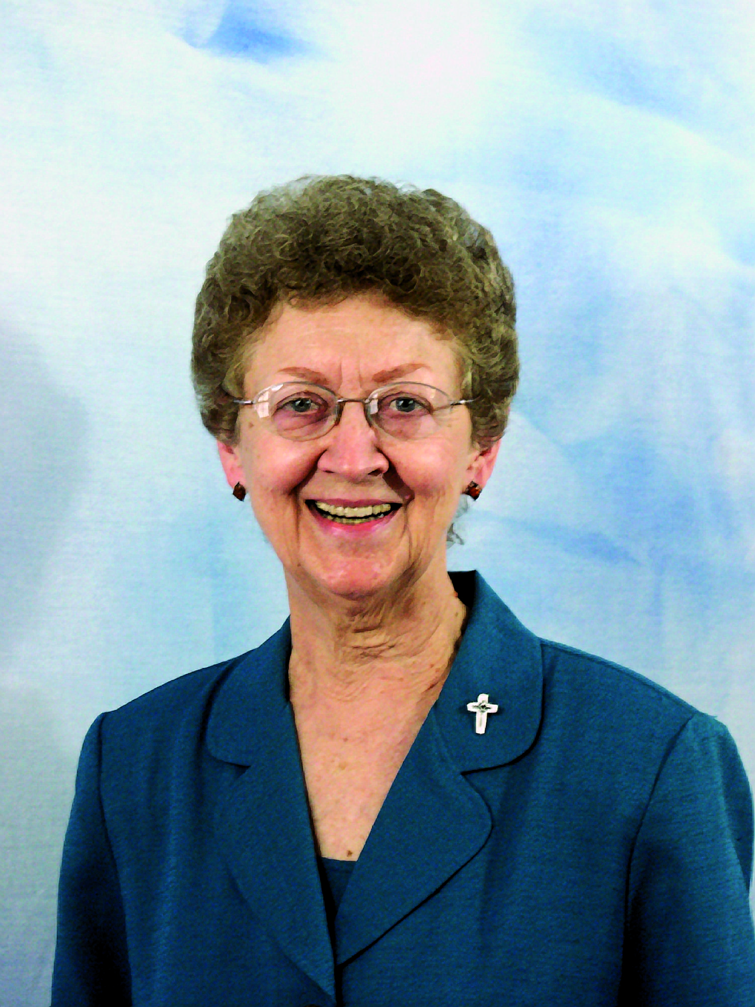 Portrait of Sister Barbara Doherty, a member of the Sisters of Providence of Saint Mary-of-the-Woods, Indiana.